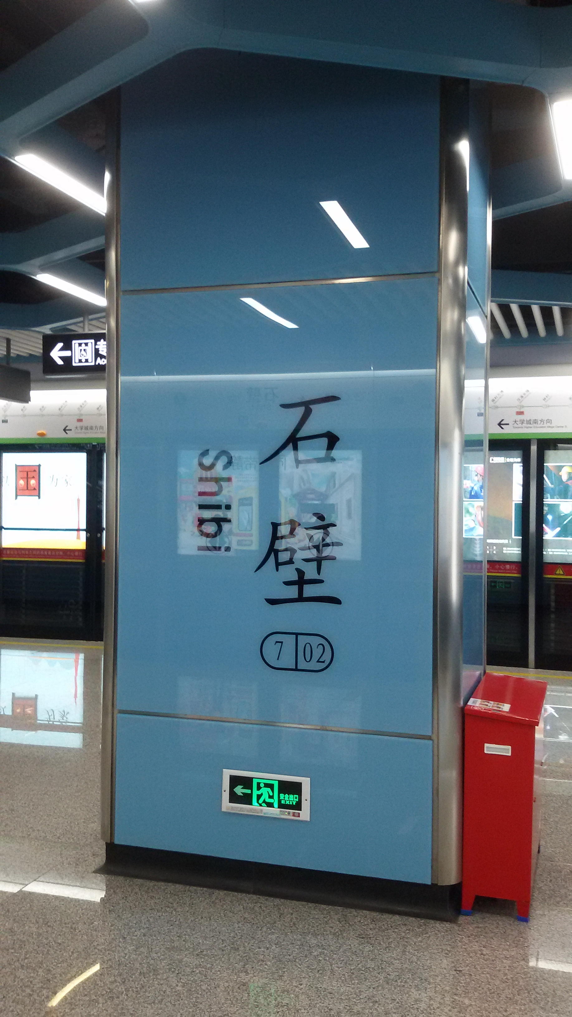 WORD on PILLAR on Line 7 for Shibi Station in Guangzhou Metro